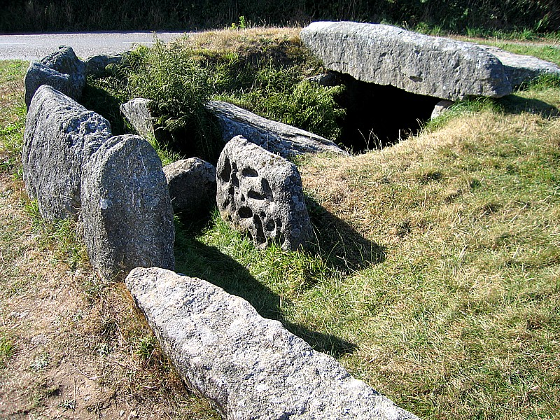 Tregiffian - barrow with burial chamber - Cornwall - UK